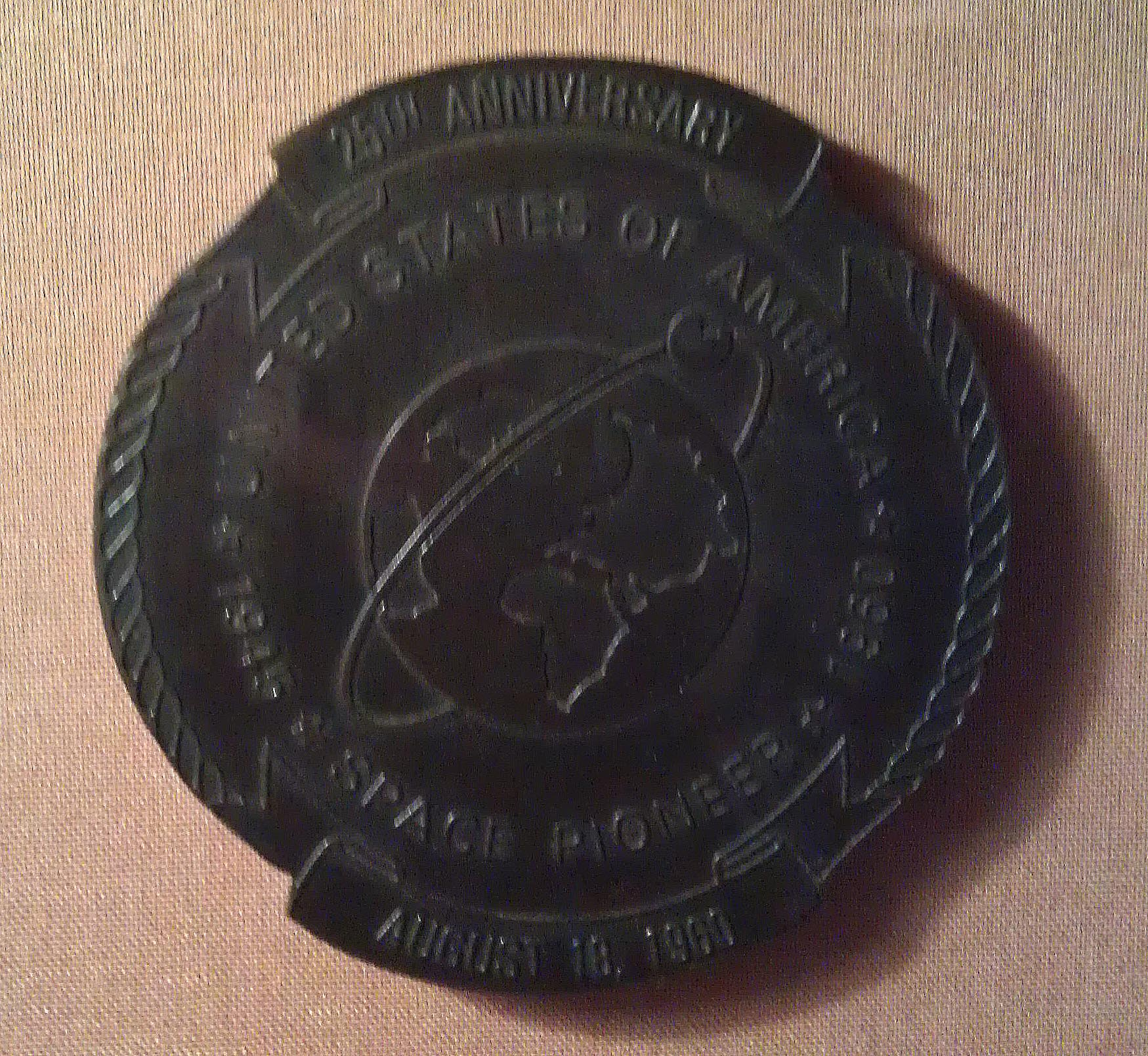 Bert Bulkin Space Pioneer CIA Medal 1985